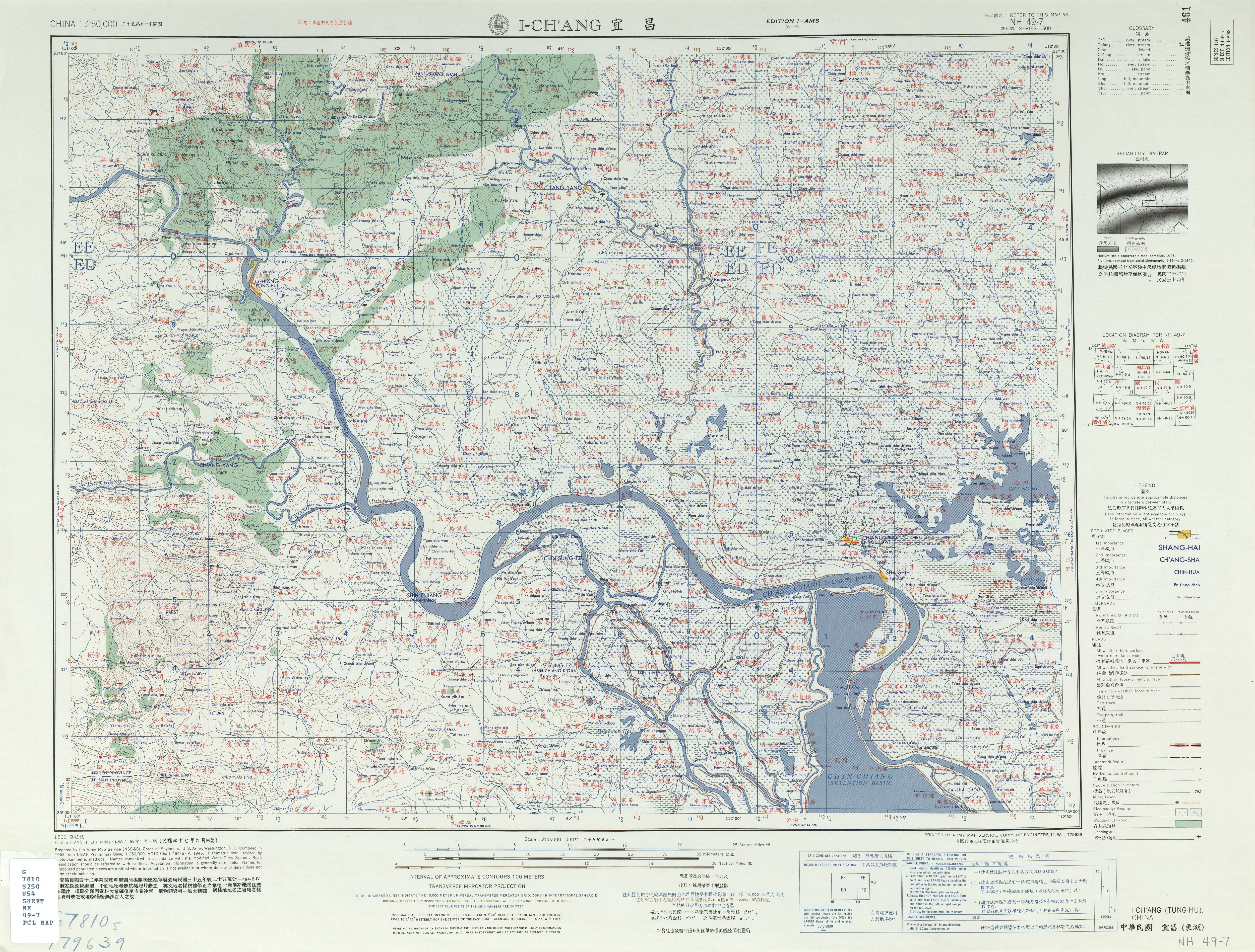 China AMS Topographic Maps